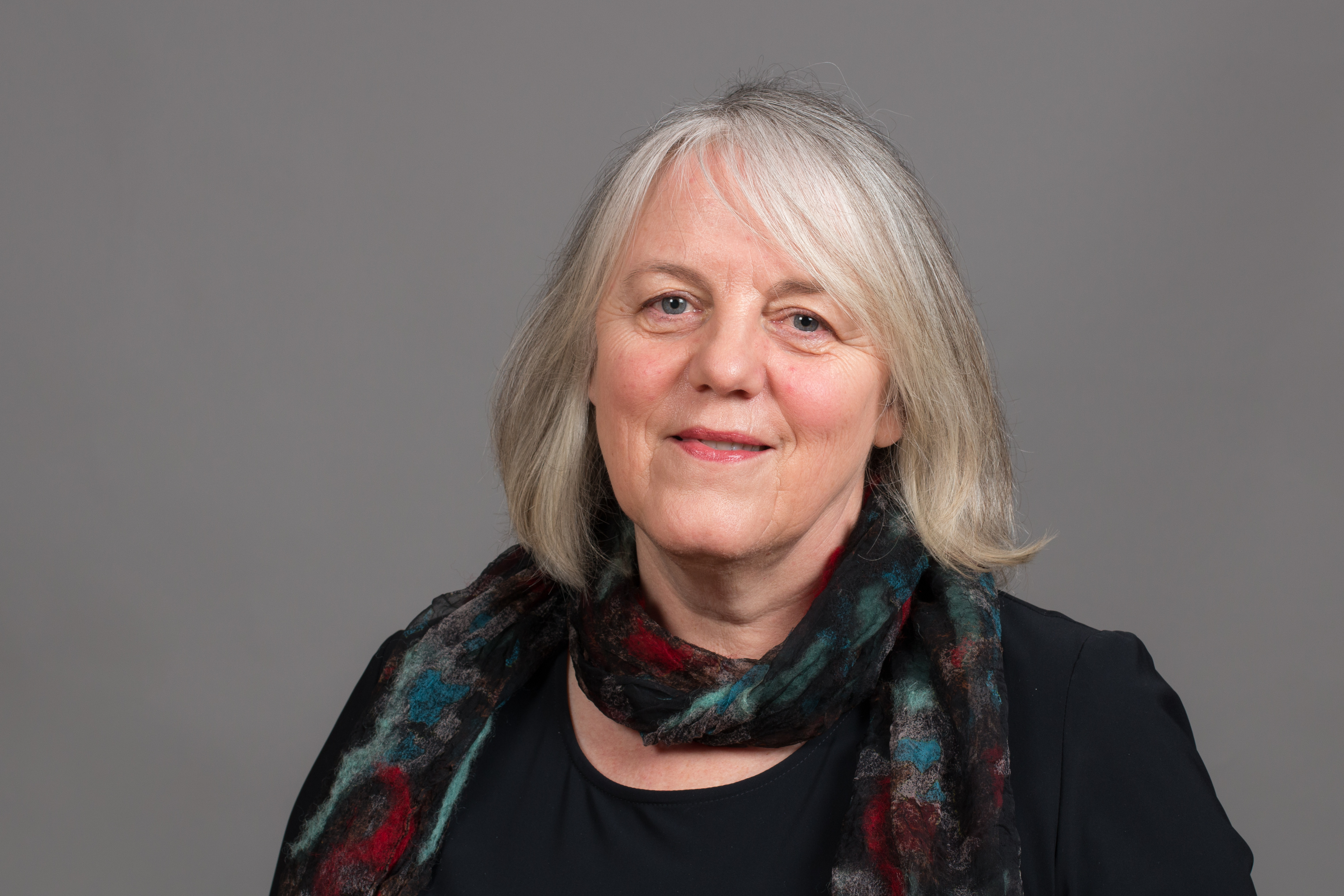 Ruth Ratter, Alliance '90/The Greens, member of the Landtag of Rhineland-Palatinate